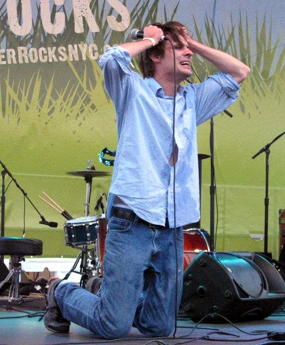 John Maus at a concert in New York City in 2012